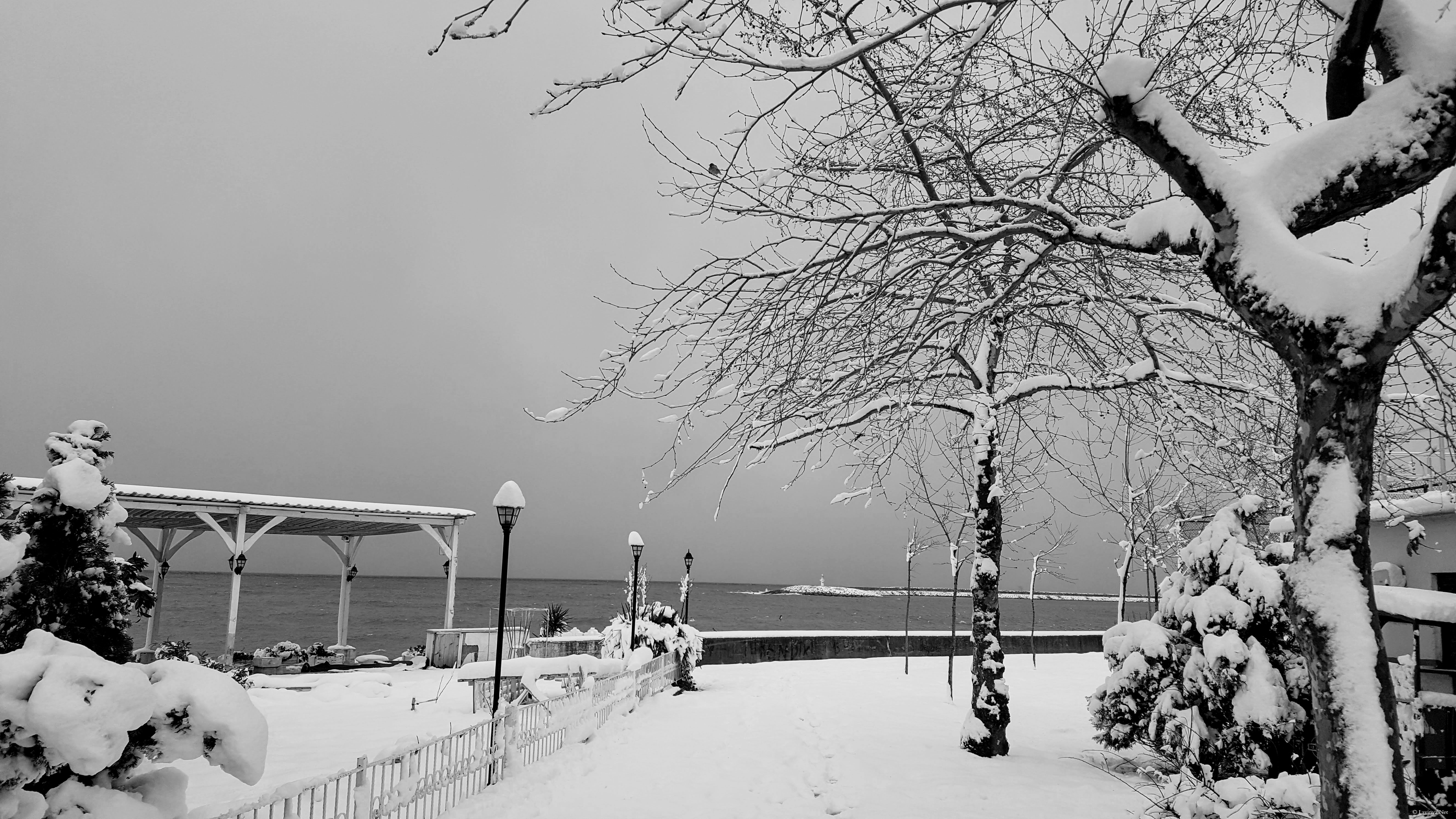 Giresun city center, a view on the beach, on a snowy winter day. February 9, 2020.